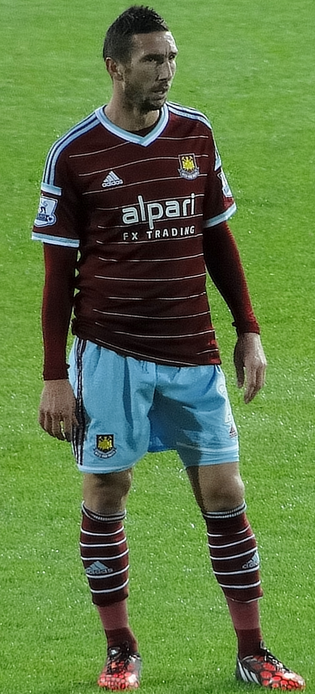 West Ham United player Morgan Amalfitano during West Ham's win against Liverpool at the Boleyn Ground, London in September 2014